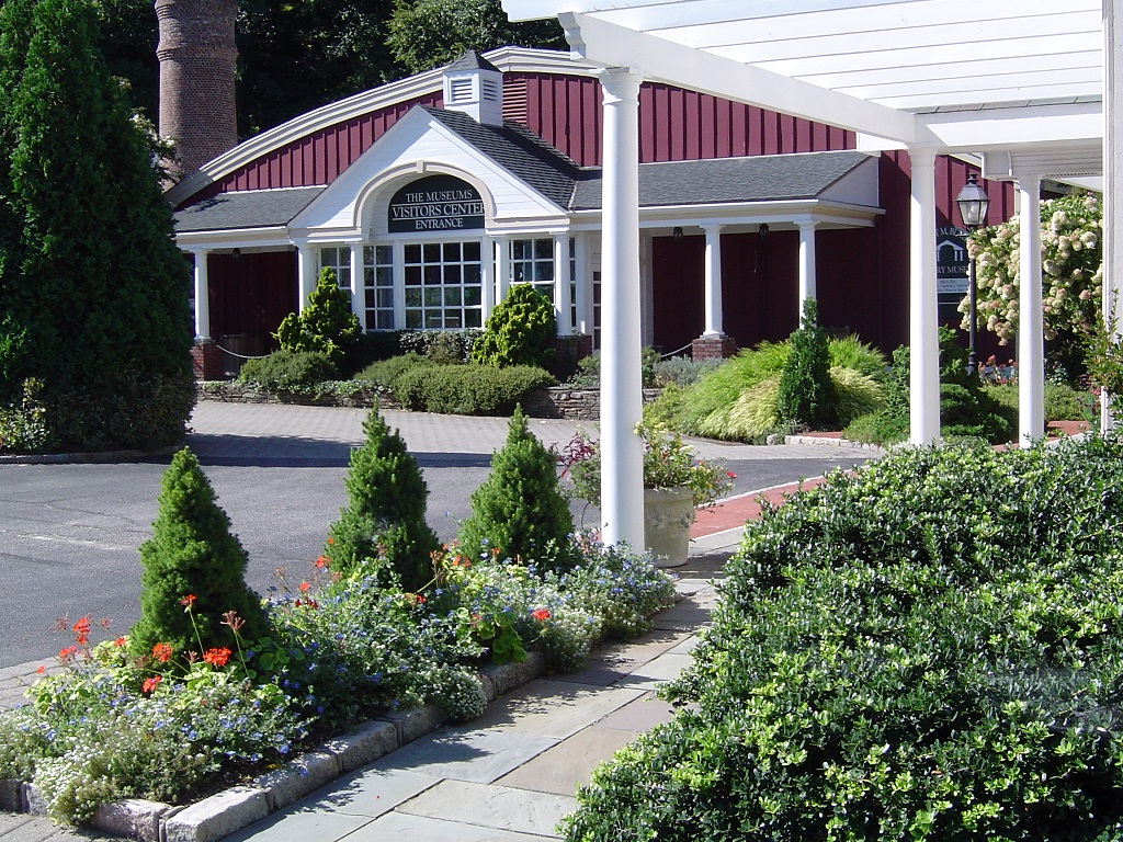 The Long Island's Visitor Center, external view.